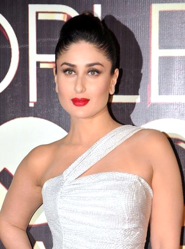 Indian actress Kareena Kapoor Khan at the 2012 People's Choice Awards